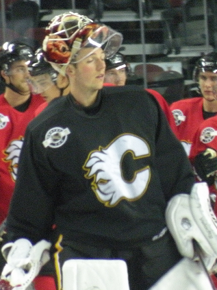 Matt Keetley during practice at the Calgary Flames' 2008 training camp.